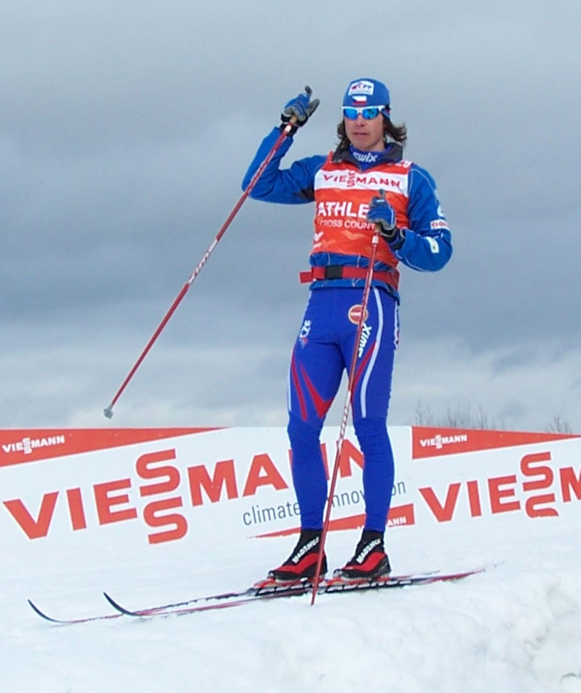 Aleš Razým at World Championship 2009 in Liberec after Men Relay 4x10 km (in which he did not participate).